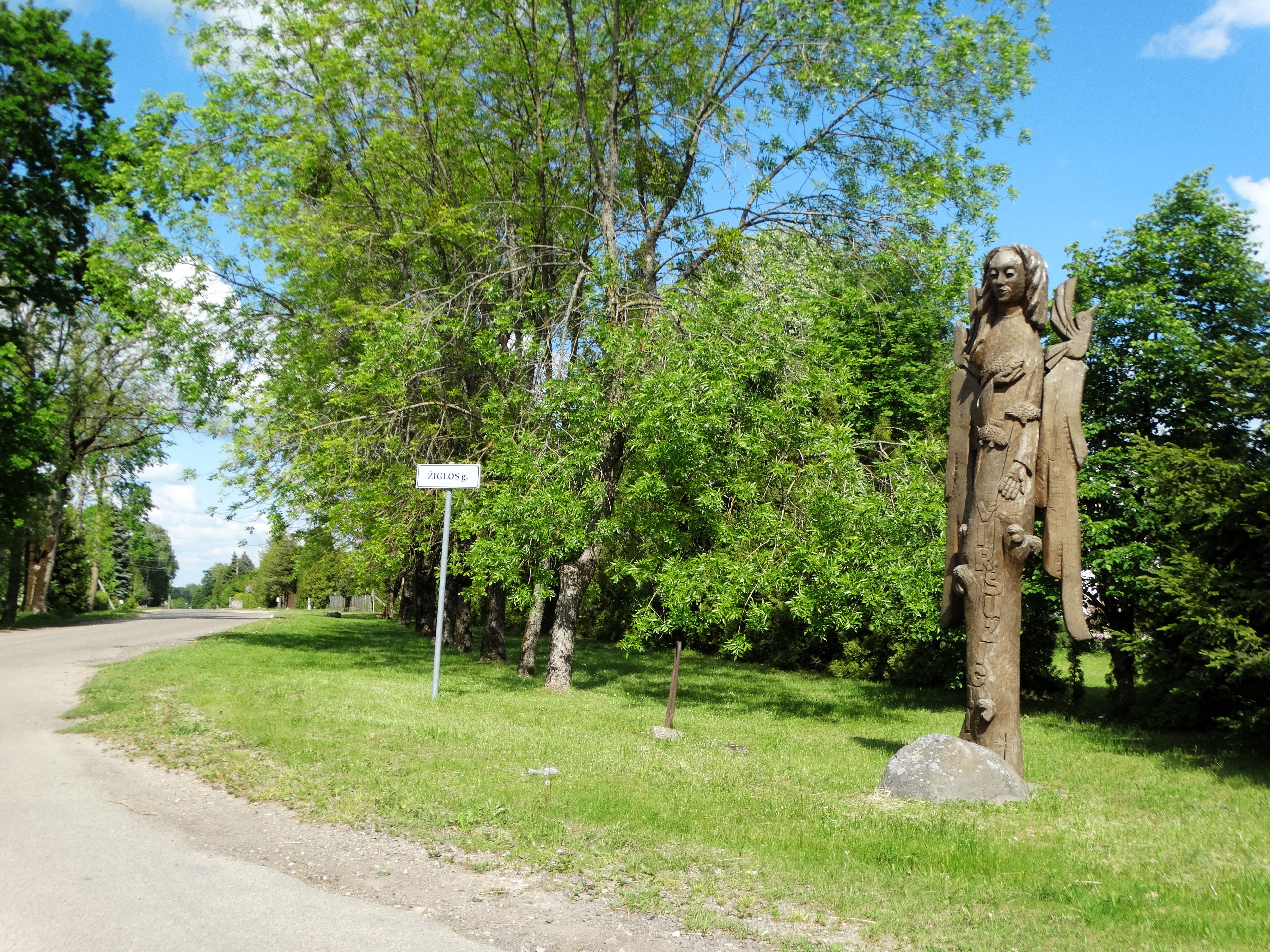 Viršužiglis, entry, wooden sculpture, Kaunas District. Lithuania